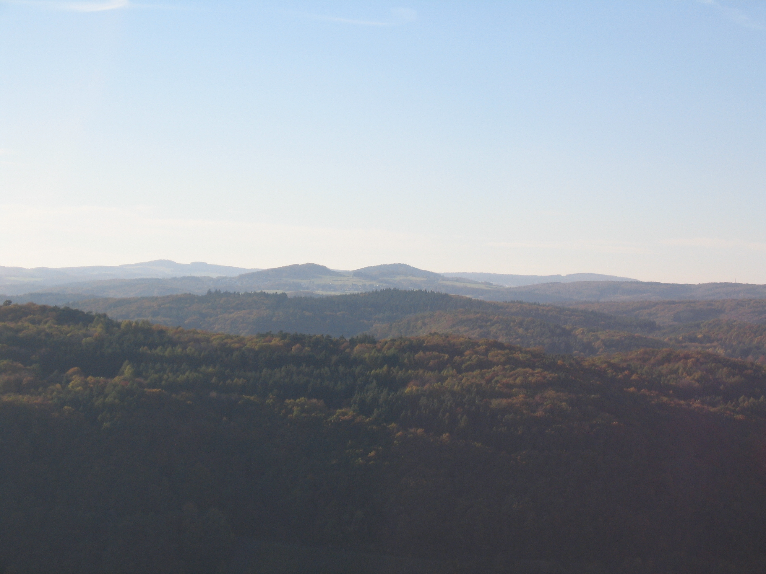 The Hochthürmer (right) and Hasenberg (left) photographed from the Krausberg Tower; in the background left the double peak of the Michelsberg